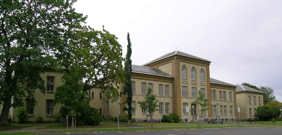 Rotvoll asyl, Rotvoll allé, Trondheim. Built 1872 as a state lunatic asylum. Next to Gaustad in Oslo, Norway's first modern asylum. Architect: Ole Falk Ebbell. Today: Høgskolen i Sør-Trøndelag, avd. for lærerutdanning.